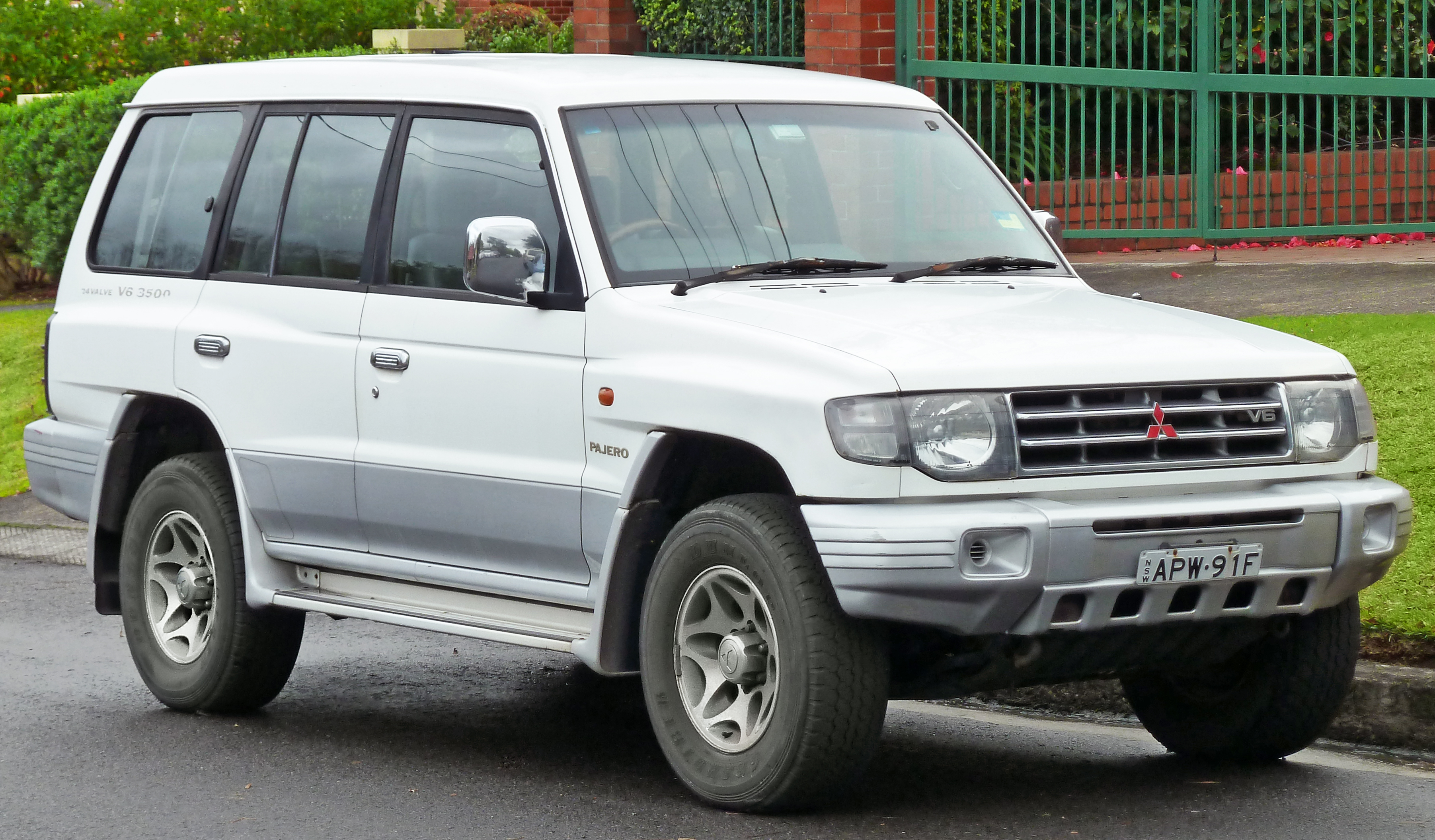 1997 Mitsubishi Pajero (NL) GLS (with Luxury Pack) wagon. The GLS Luxury Pack added dual-zone air conditioning, dual air bags, leather upholstery, electric driver's seat, chrome grille, chrome side mirrors, chrome rear bumper (centre only), and wood grain interior trim to the GLS specification. In 1999, the NL series GLS Luxury Pack became the Exceed, adding a sunroof, chrome tail lamp surrounds, and a wood grain transmission shifter. Photographed in Gordon, New South Wales, Australia.